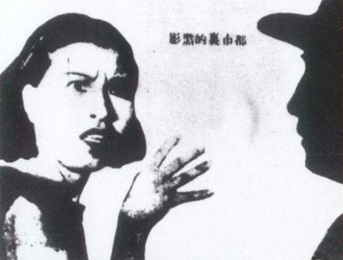 1934 Jiang Qing movie poster